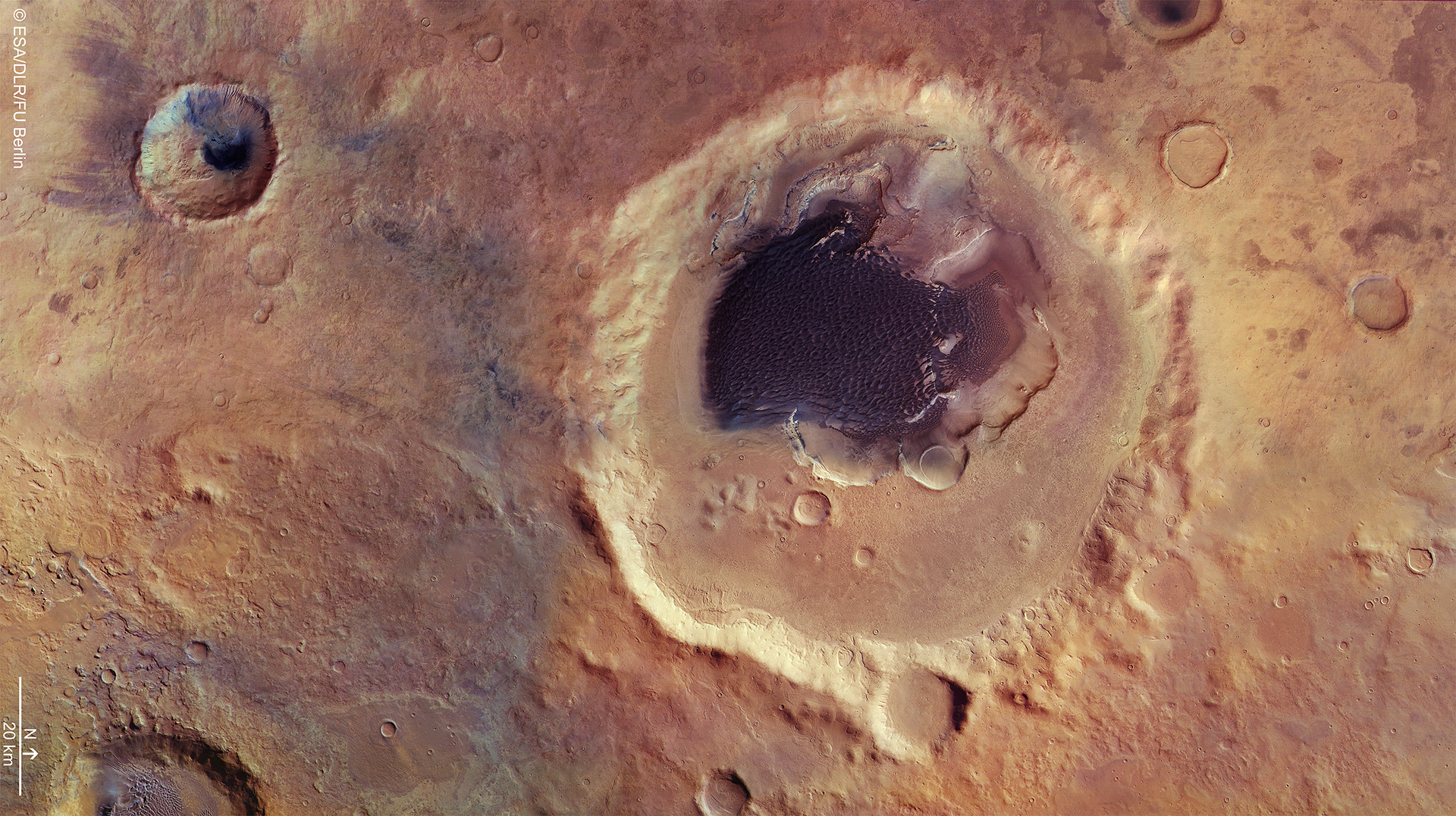 Rabe Crater is a 108 km-wide impact crater with an intricately shaped dune field. The dune material likely comprises locally eroded sediments that have been shaped by prevailing winds. Other smaller craters in the region also contain these dark deposits. One relatively young and deep crater can be seen in the upper left; as well as the dark material, channels and grooves are clearly visible in its crater walls. The images used for this mosaic were taken by the High Resolution Stereo Camera on ESA’s Mars Express on 7 December 2005 (orbit 2441) and 9 January 2014 (orbit 12736). The scene is located at 35°E/44°S, about 320 km west of the giant Hellas impact basin in the southern highlands of Mars. The image resolution is about 15 m per pixel. North is at right (a map). Credit: ESA/DLR/FU Berlin, CC BY-SA 3.0 IGO Copyright Notice: This work is licenced under the Creative Commons Attribution-ShareAlike 3.0 IGO (CC BY-SA 3.0 IGO) licence. The user is allowed to reproduce, distribute, adapt, translate and publicly perform this publication, without explicit permission, provided that the content is accompanied by an acknowledgement that the source is credited as 'ESA/DLR/FU Berlin’, a direct link to the licence text is provided and that it is clearly indicated if changes were made to the original content. Adaptation/translation/derivatives must be distributed under the same licence terms as this publication. To view a copy of this license, please visit